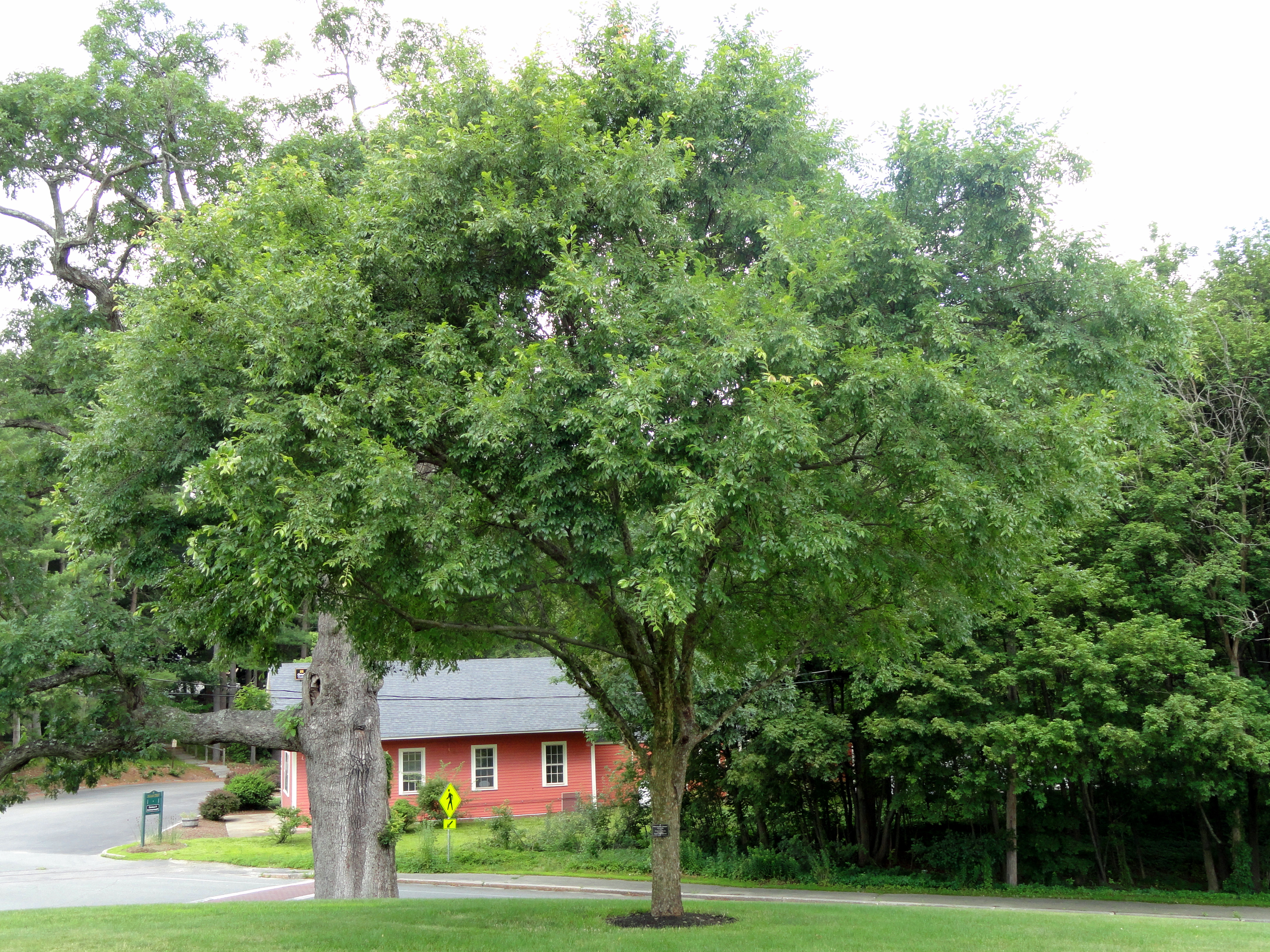 View of Dover, Massachusetts, USA.